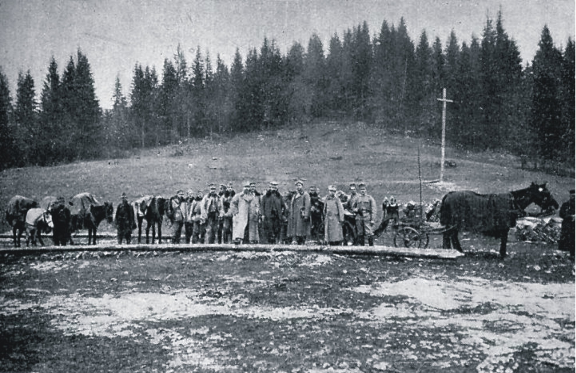 The 'Pass of Legions' in Gorgany mountains - 1914 or 1915